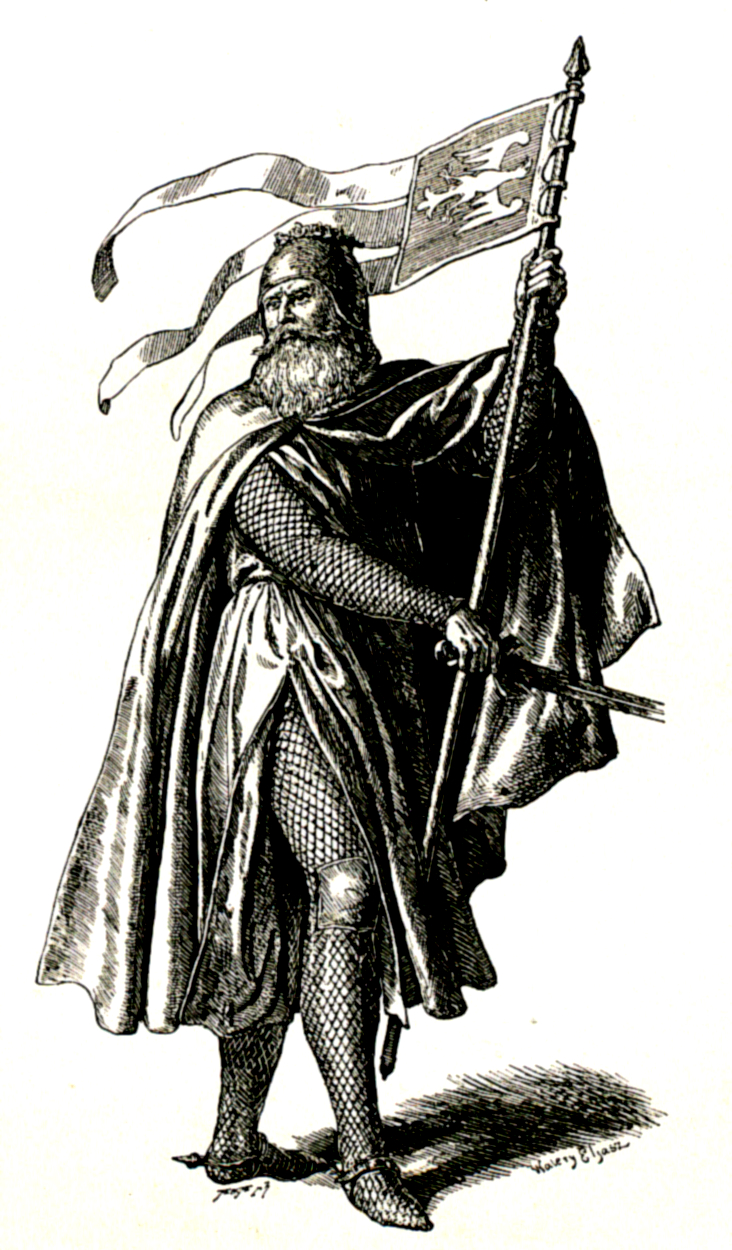 Boleslaus Wrymouth, Duke of Poland